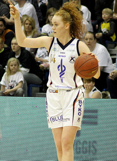 Sara Rún Hinriksdóttir, of Keflavík, during the 2015 women's basketball cup finals.